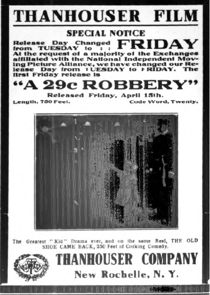 An advertisement for A 29 Cent Robbery in Billboard.